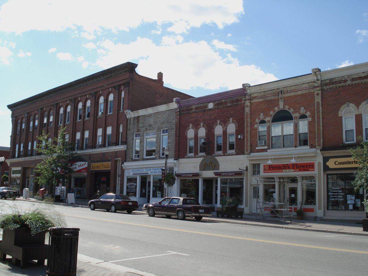 Shelburne Main Street E